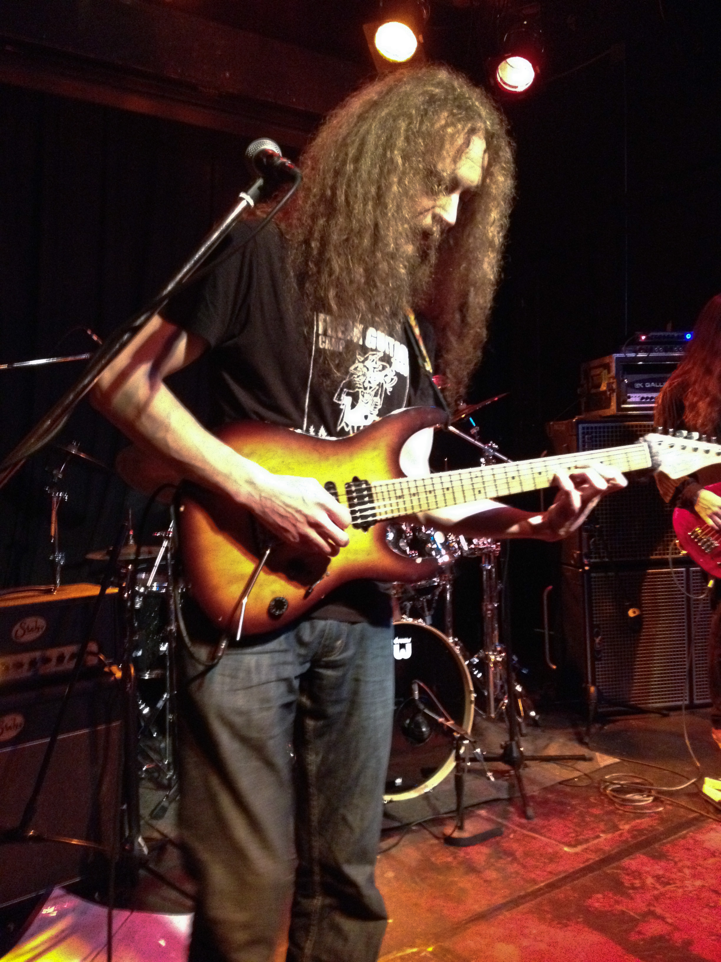 Guthrie Govan with The Aristocrats.